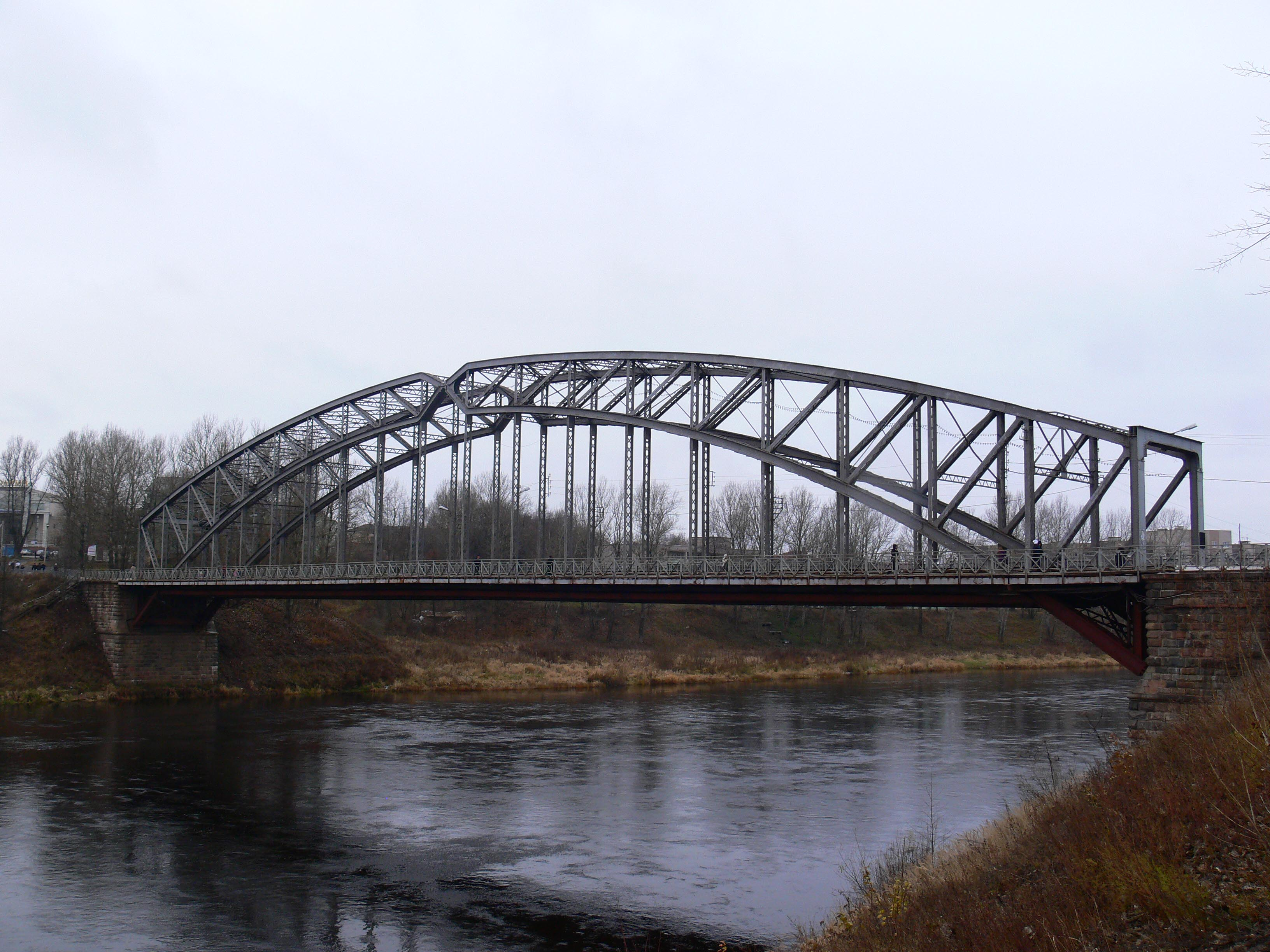 Beleliubsky bridge in Borovichi, Novgorod region.